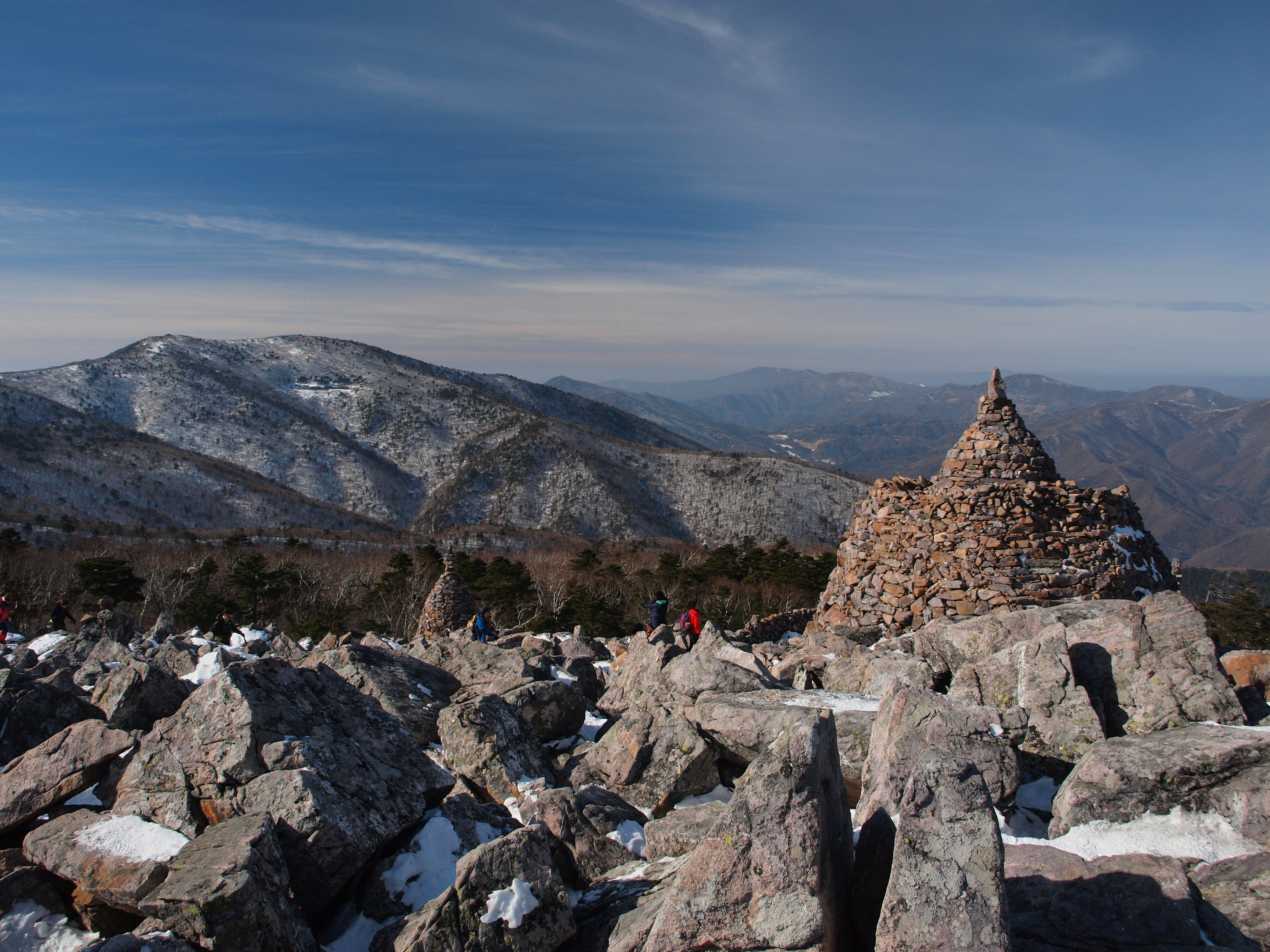 Main peaks of Taebaeksan viewed from Munsubong, one of the mountain's other peaks